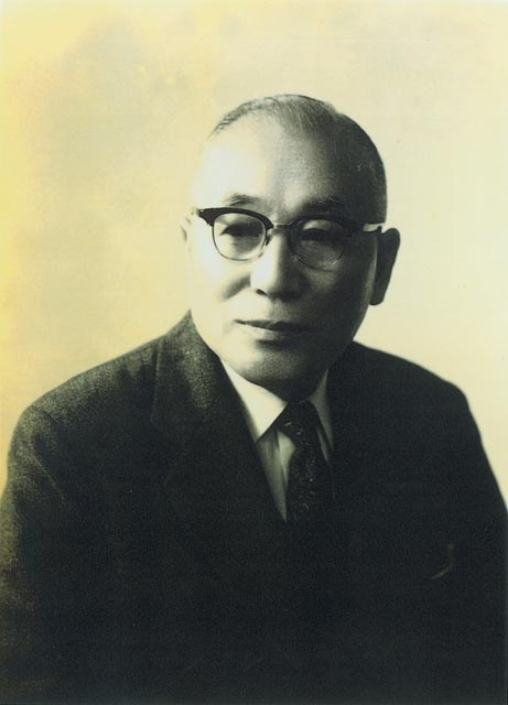 宗藤大陸, an officer in the Japanese-ruled Taiwan notice that the romanization of the name is just a "reverse-transliteration" from Kanji, it may have alternative readings source: [1]